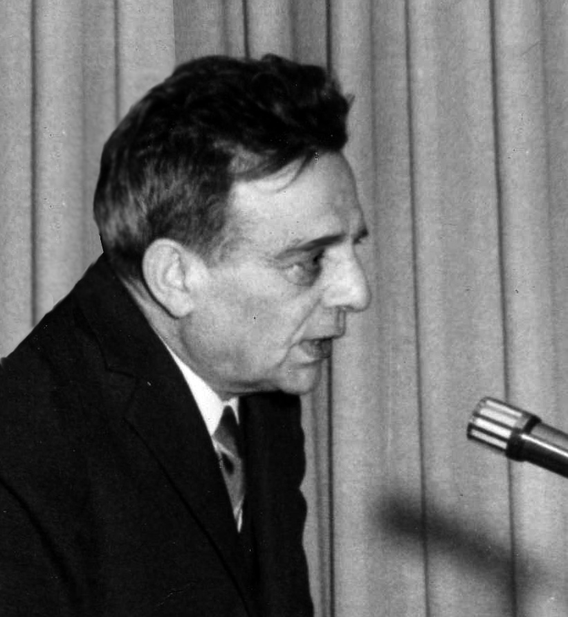 Mario Gliozzi portrait